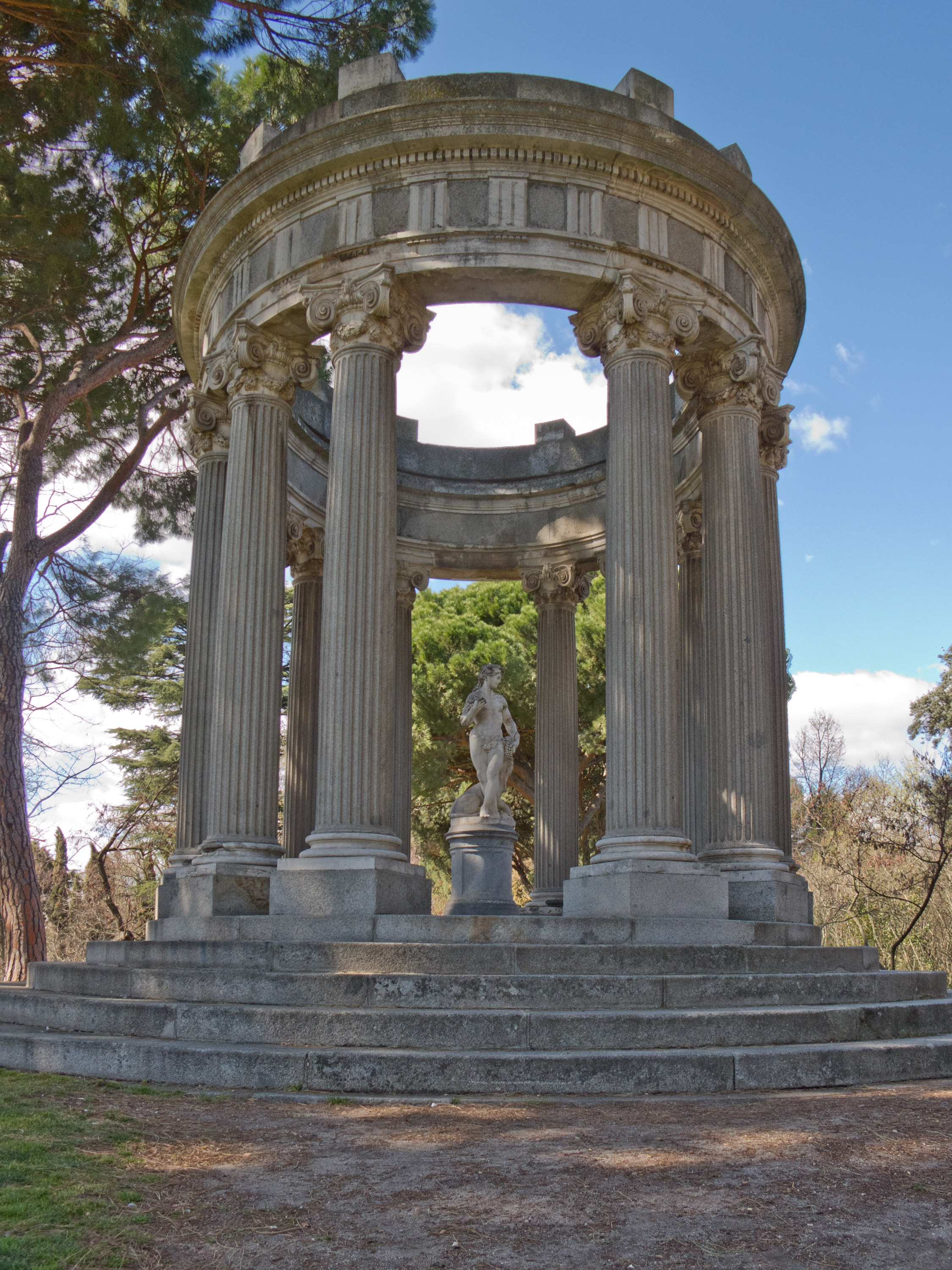 Park of El Capricho, Madrid, Spain.